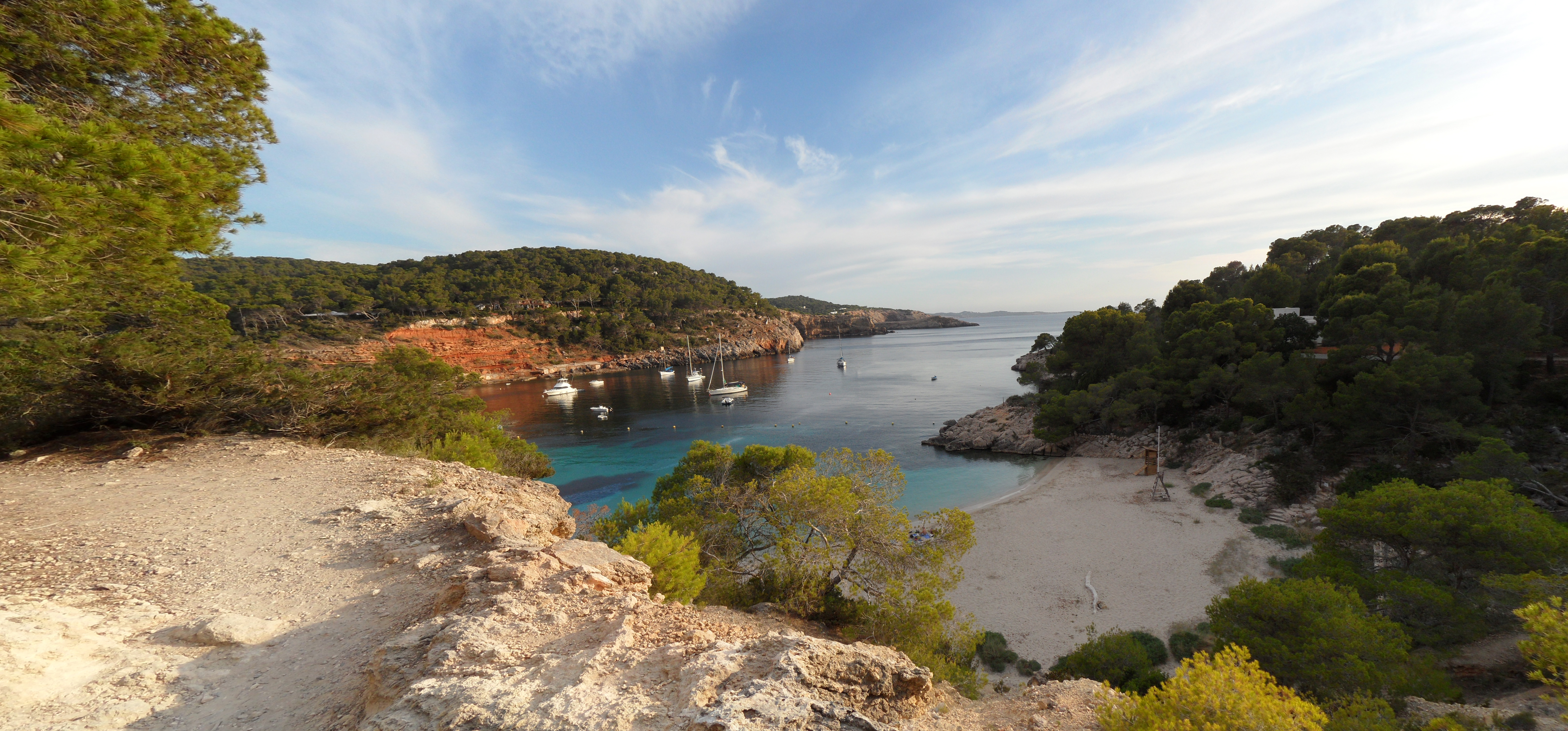 Ibiza - Cala Saladeta